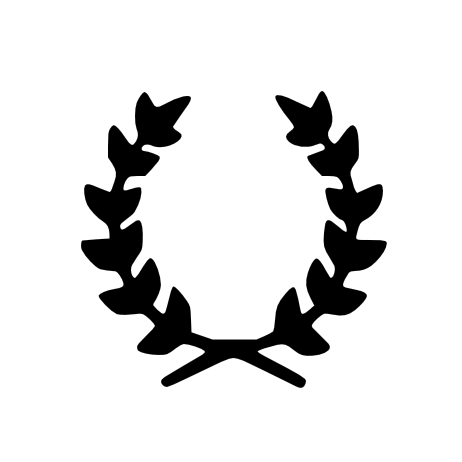 Symbol of Hellenism.